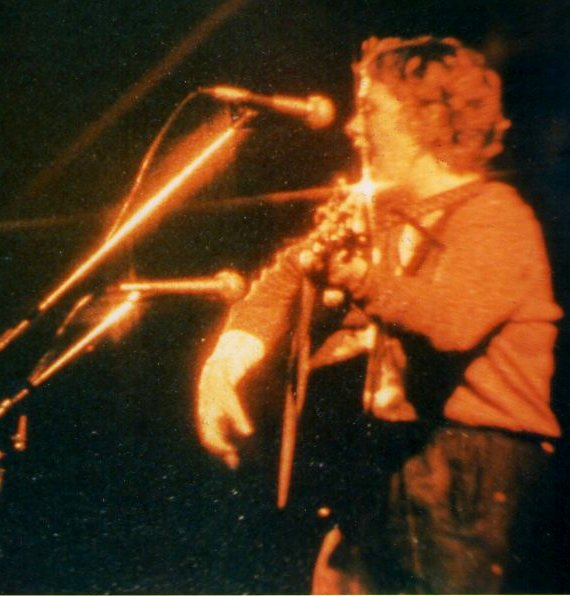 Melanie Harrold on stage, Keele 1980